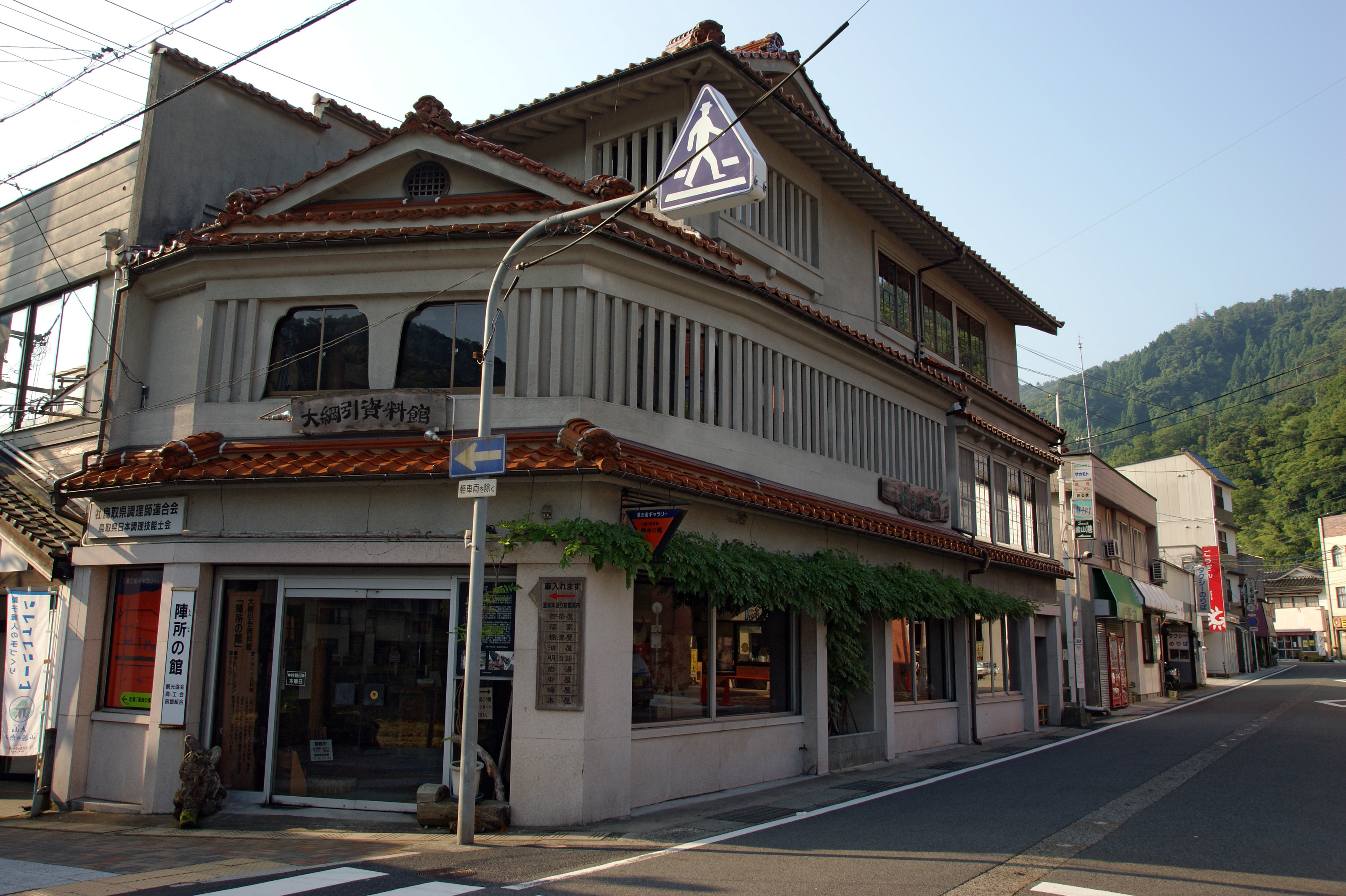 Jinsho-no-yakata in Misasa, Tottori prefecture, Japan